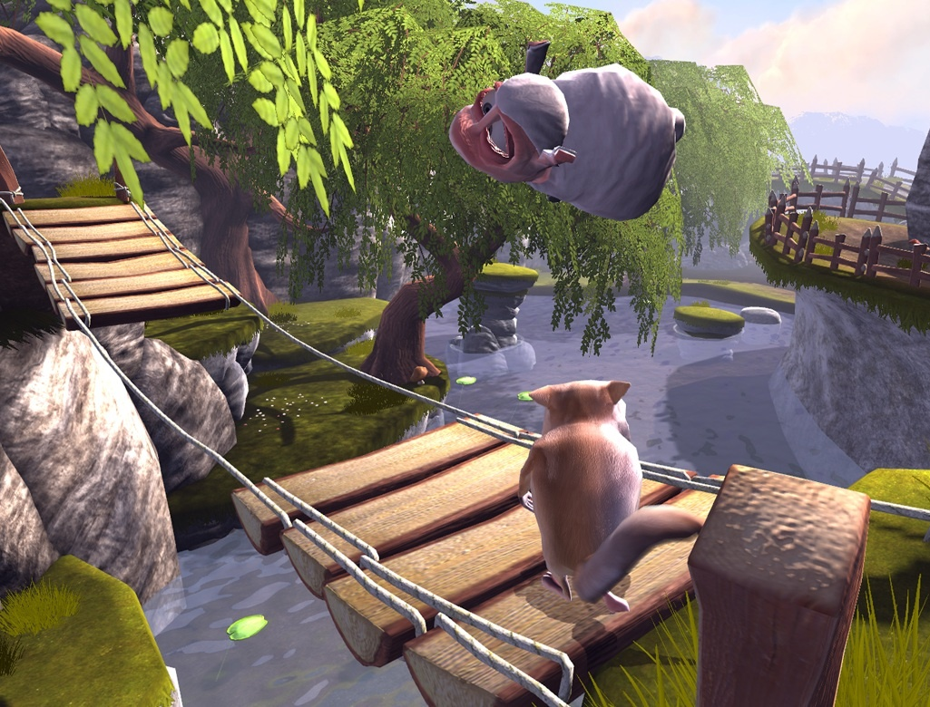 Screenshot of Yo Frankie!, running on the Blender Game Engine